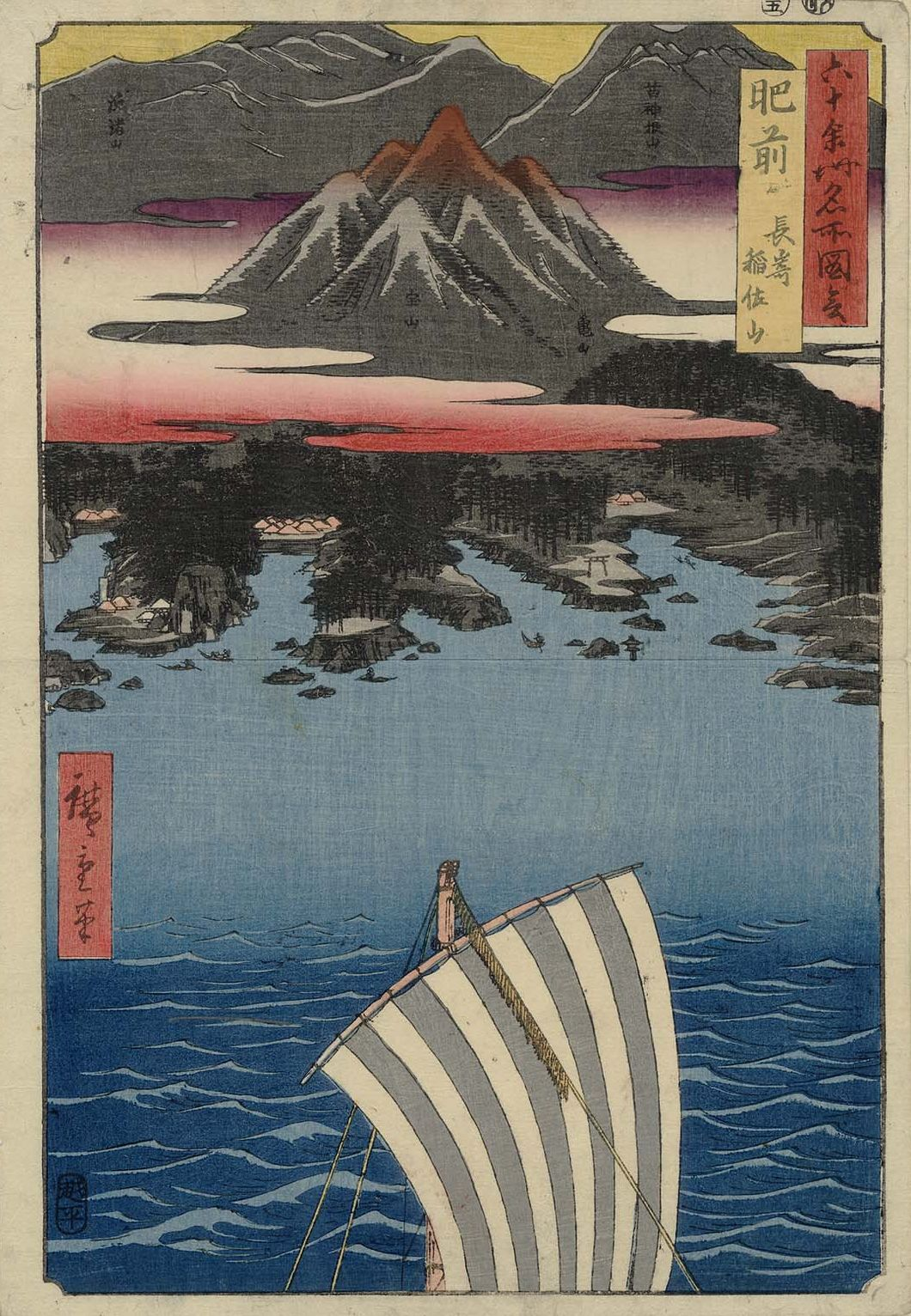 Part of the series Famous Places in the Sixty-odd Provinces, No. 63 (Saikaidō group)